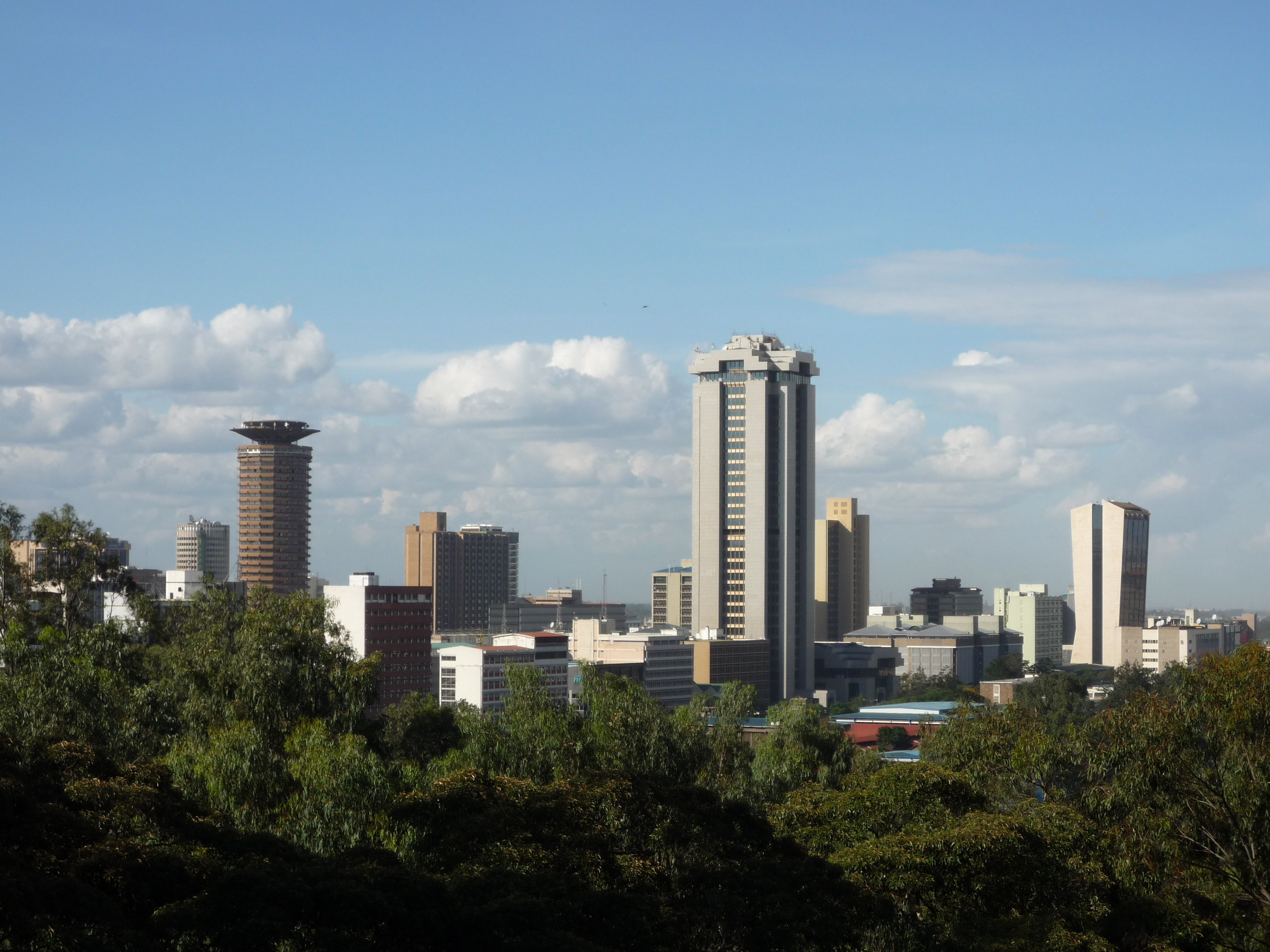 Nairobi skyline from Upperhill